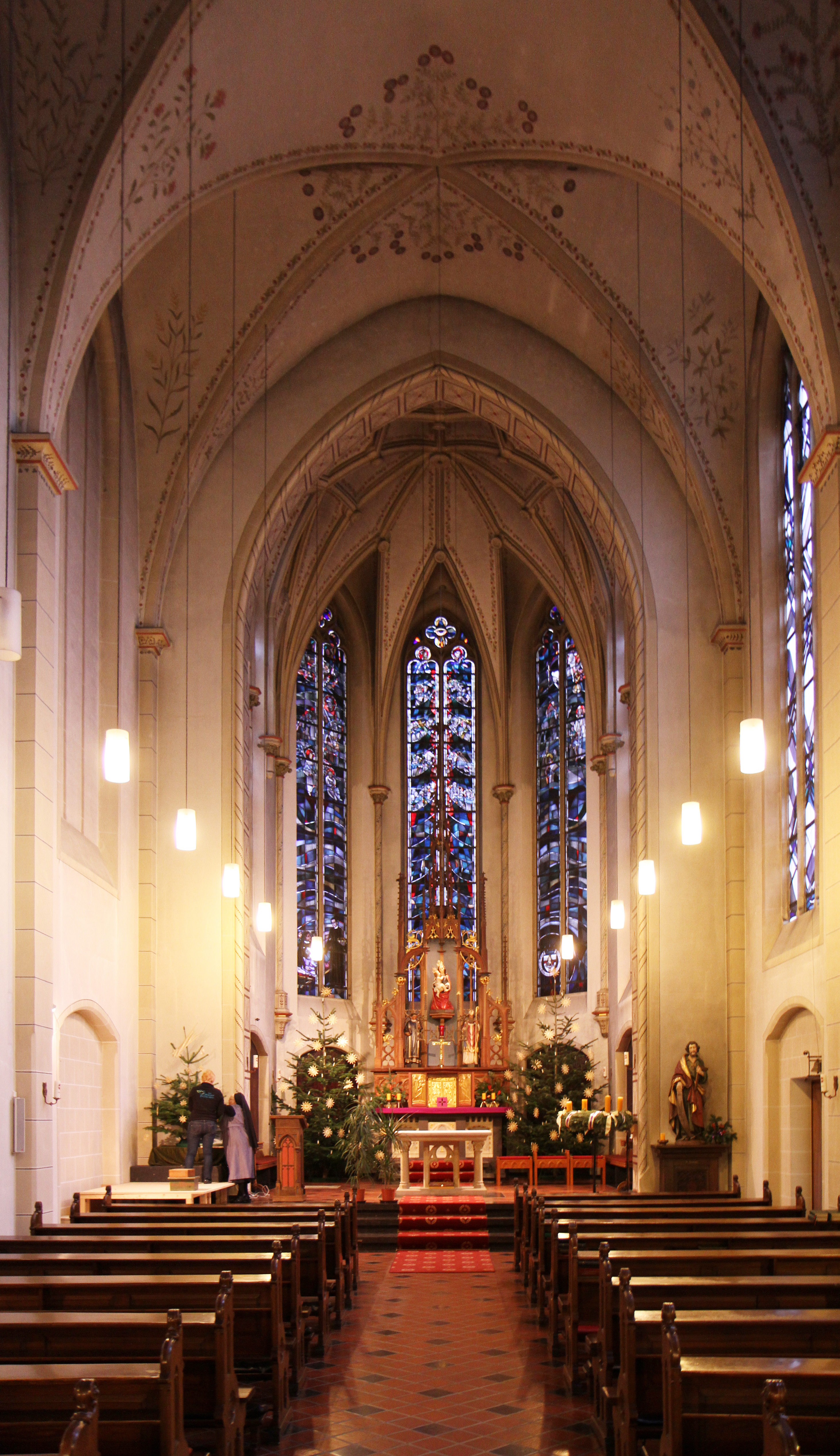 Hospitalchapel of Brüderhaus St. Josef in Koblenz